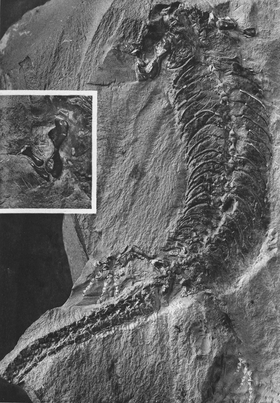 Plate II. Skeleton found in Blanzy (Saone-et-Loire), enlarged 1.5 times. On the left, humerus, radius, and ulna of the same enlarged 2 times.